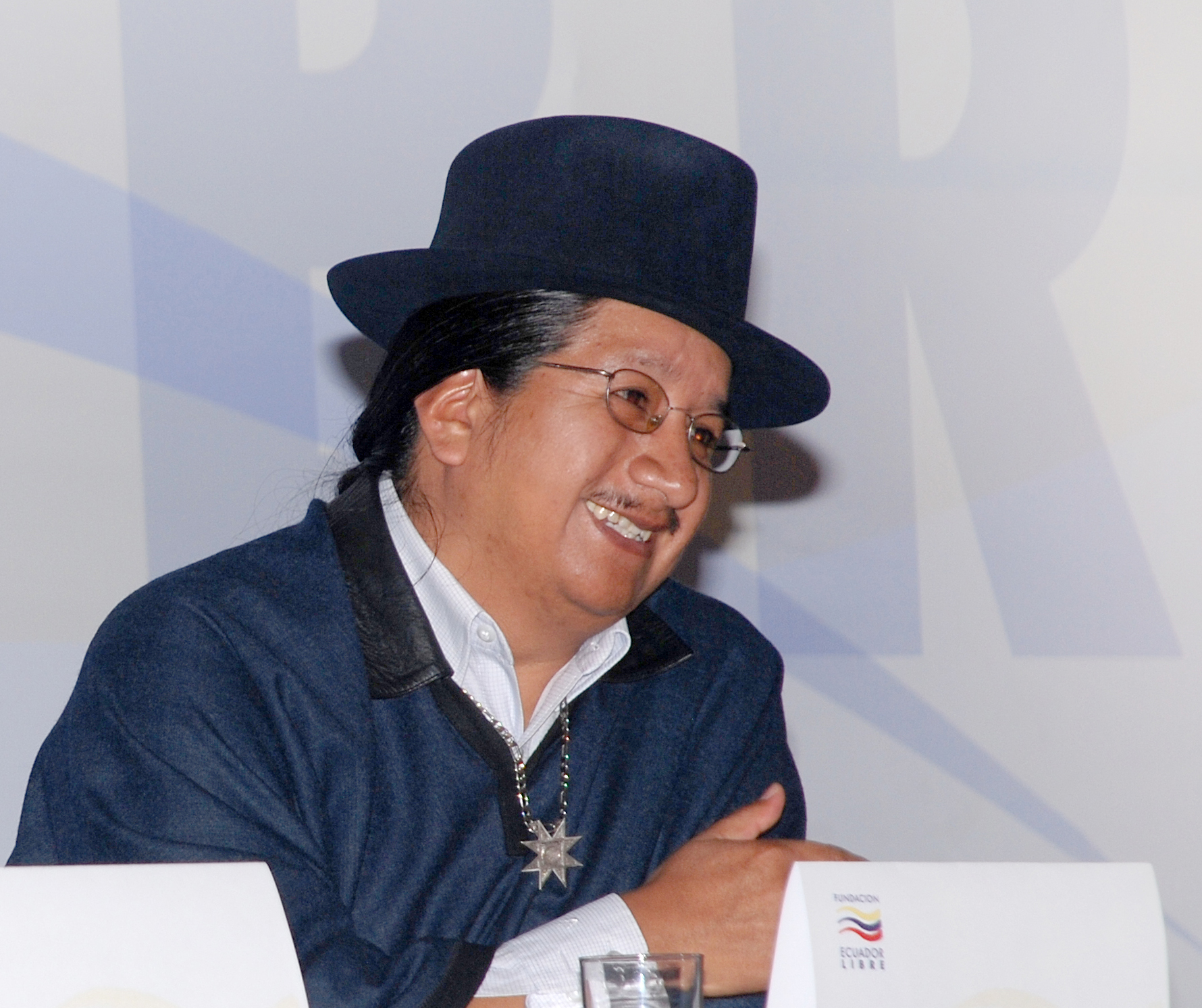 Auki Tituaña en Fundación Ecuador Libre